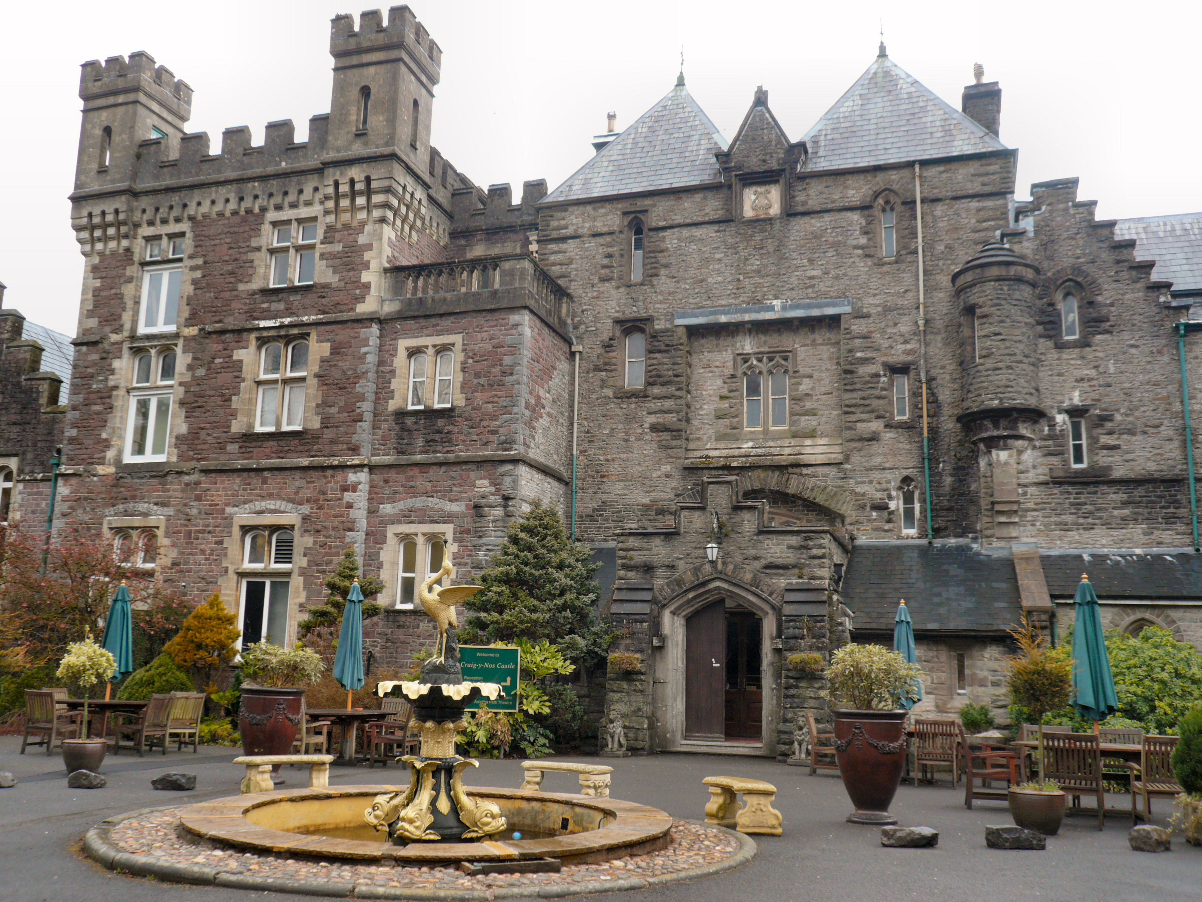 Craig-y-Nos Castle Wikidata has entry Q5180663 with data related to this item.